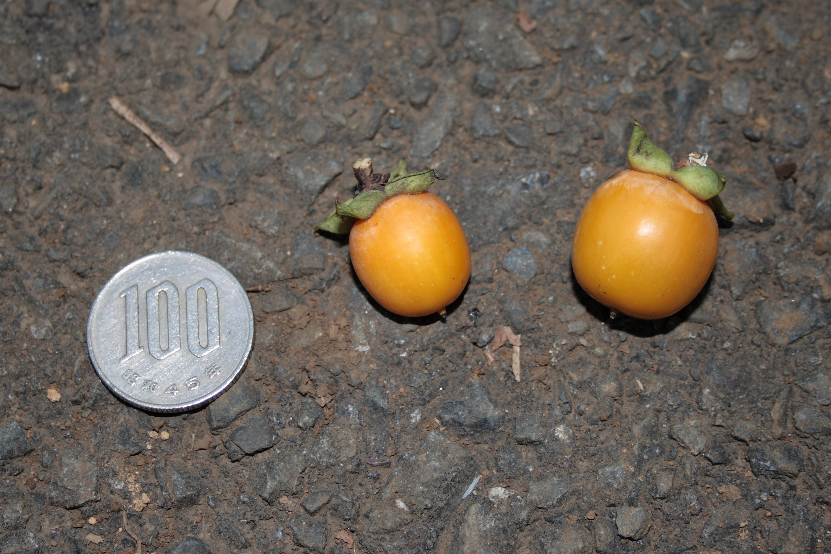 Diospyros lotus fruits adjacent to a 100 yen coin for scale; the 100 yen coin is 22.6mm in diameter (0.89 inches).